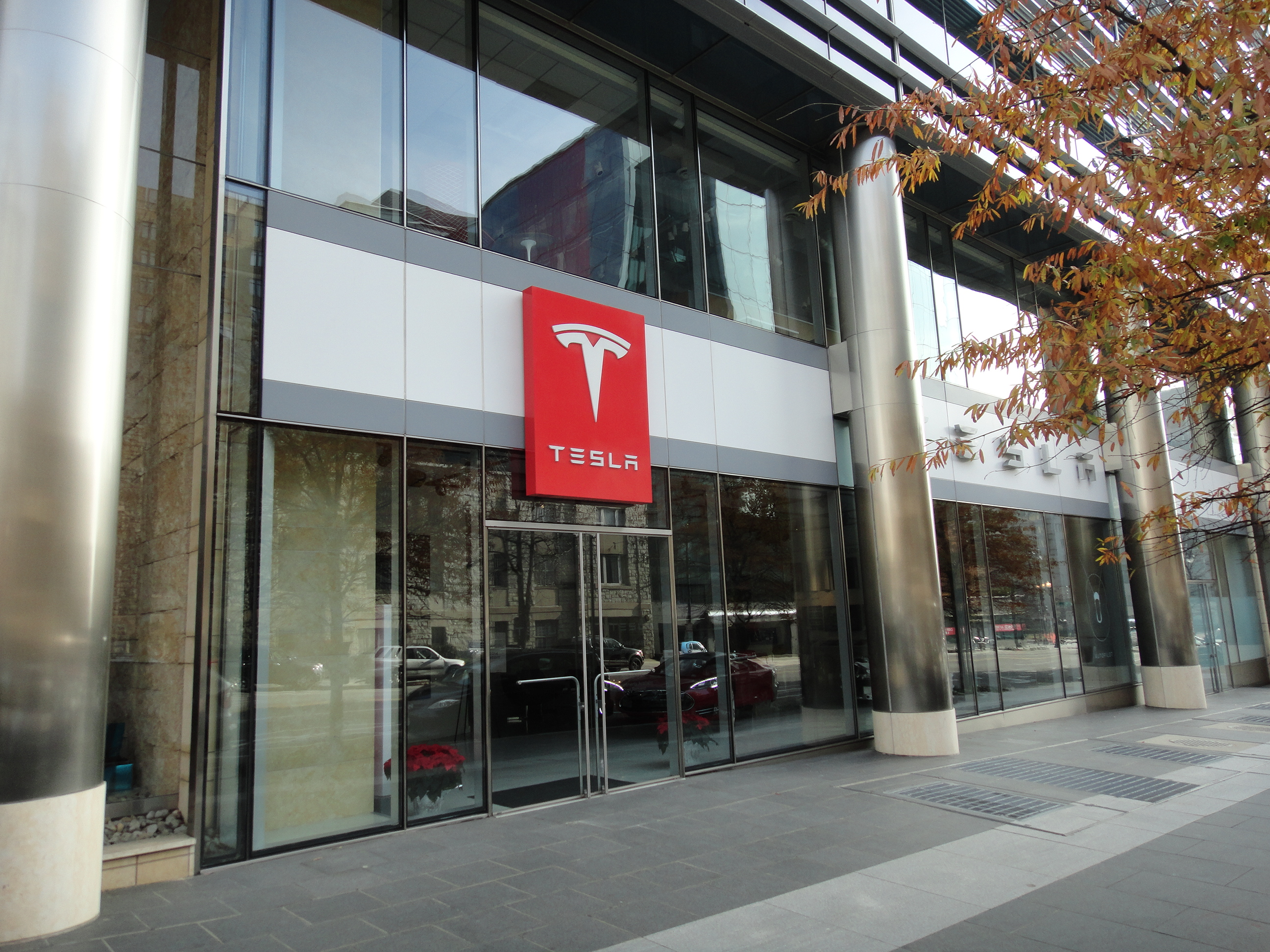 Tesla Motors showroom in Washington D.C.